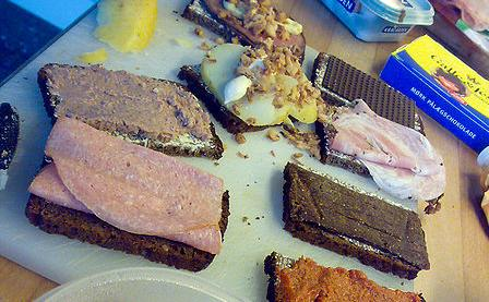 Slices to carry to work/school in a lunchbox are being prepared in the morning. Some typical Danish toppings are shown. Original text from Flickr/Steen Roar Hillebrecht: The boys are back in school and we are back to basics. Making lunch packets every morning.